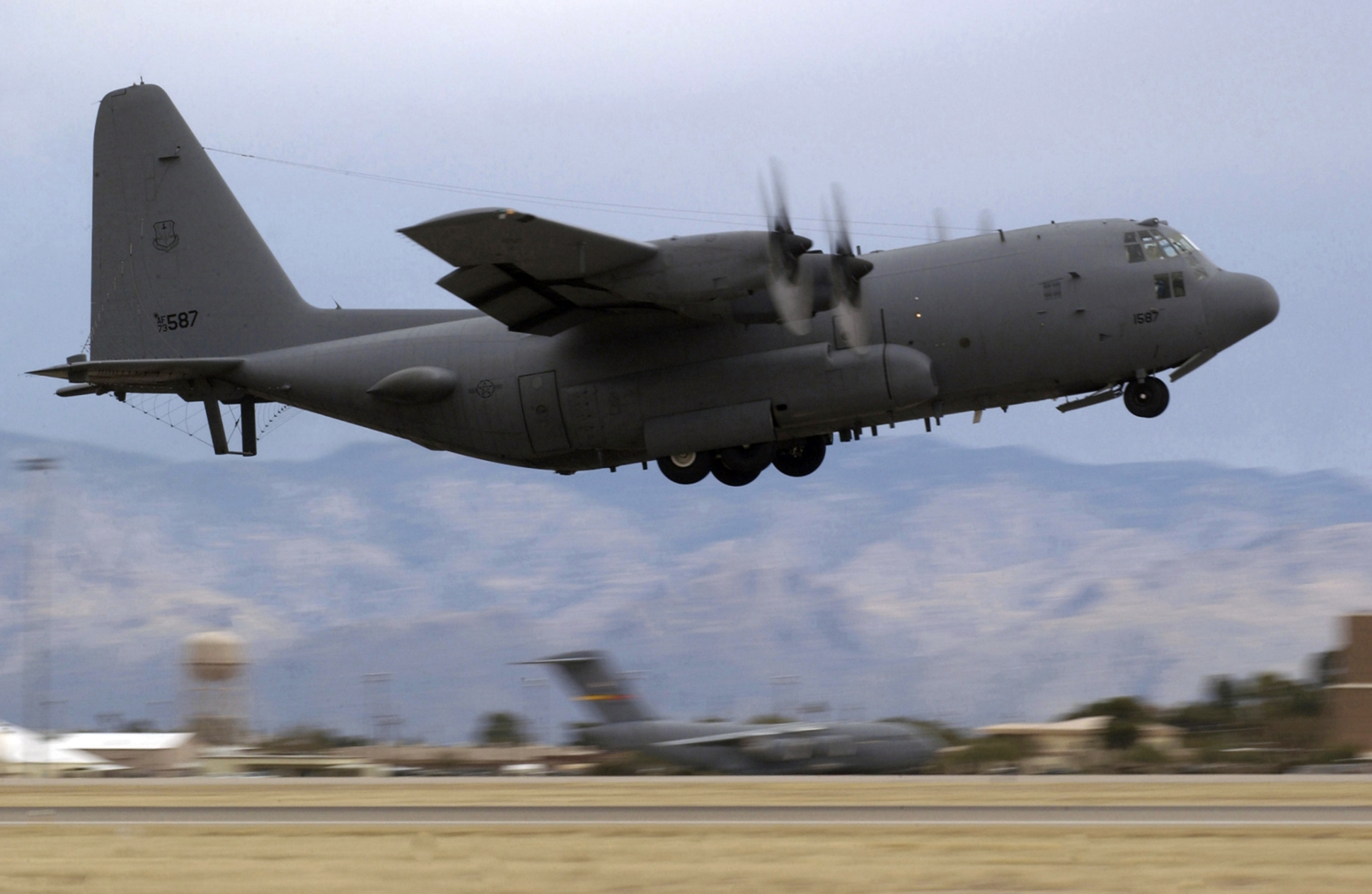 A U.S. Air Force Lockheed EC-130H Compass Call aircraft (s/n 73-1573) from the 41st Electronic Combat Squadron takes off from Davis-Monthan Air Force Base, Arizona (USA), on 18 February 2007, for a simulated deployment as part of operational readiness inspection "Coronet White 07-ACC-09".